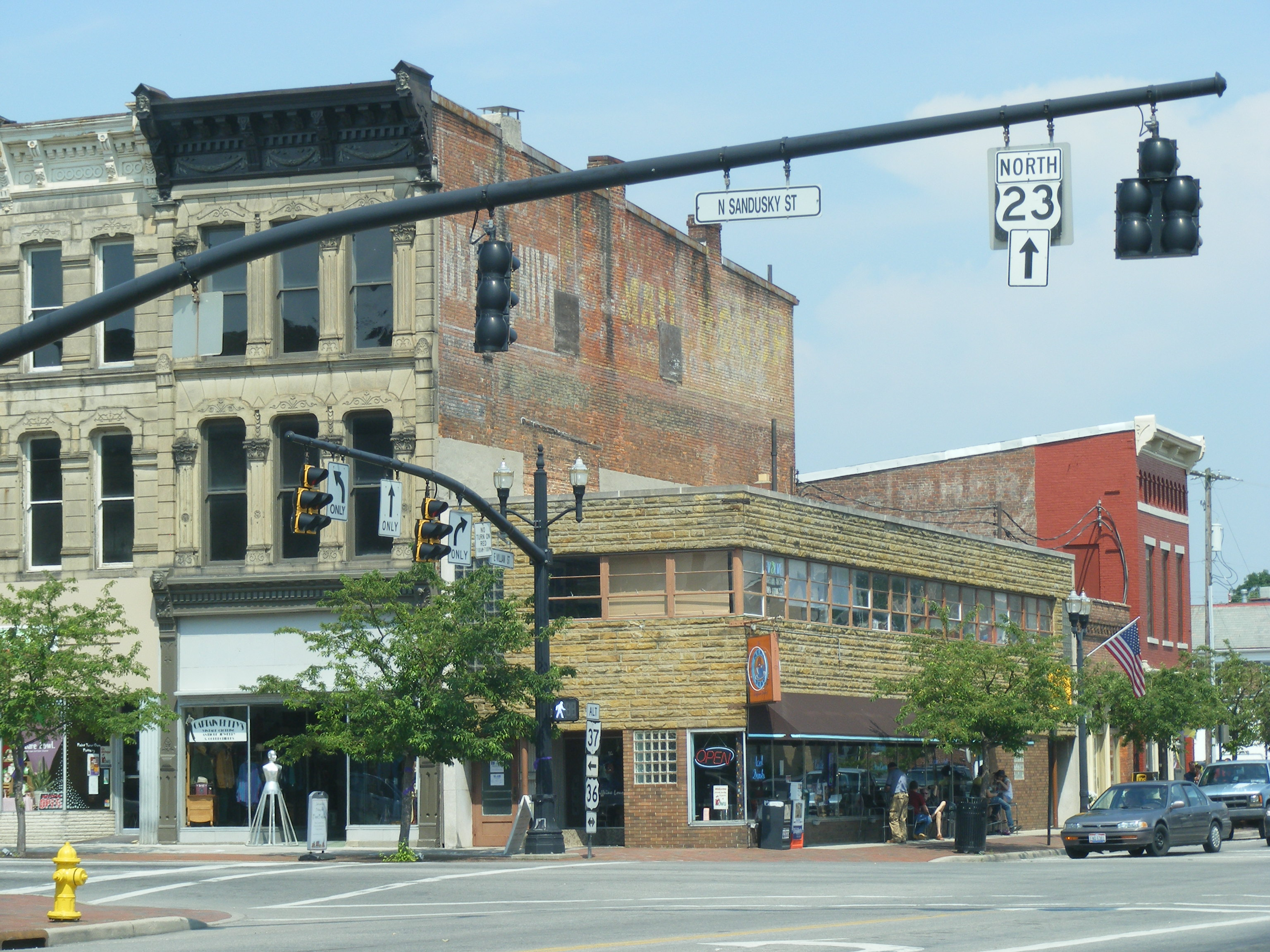 S. Sandusky St in Delaware Ohio